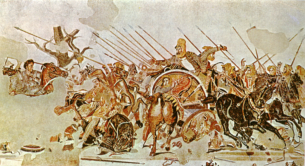 Mosaic representing the battle of Alexander the Great against Darius (III) the Great, possibly at Battle of Issus or Battle of Gaugamela, perhaps after an earlier Greek painting of Philoxenus of Eretria. This mosaic was found in Pompeii in the House of the Faun and is now in the Museo Archeologico Nazionale (Naples). It is dated first century BC.